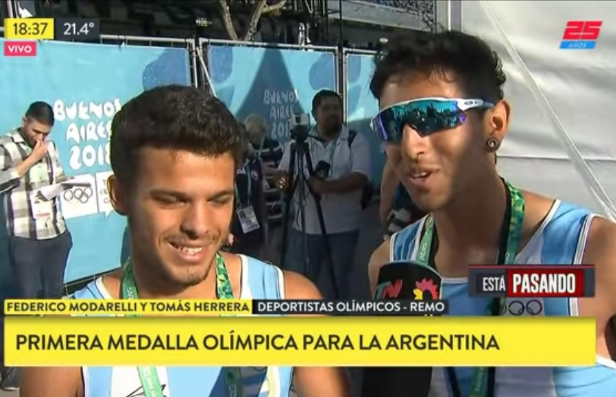 III Youth Olympic Games Buenos Aires 2018. Rowing. Tomás Herrera & Felipe Mondarelli. Argentina Bronce Medall.